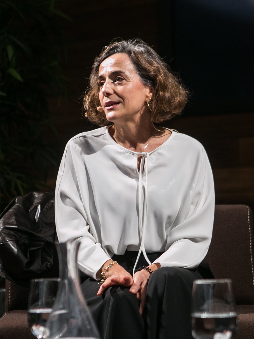 Literaktum 17 San Telmo Museoa Argazkilaria/fotógrafa: Lorena Otero